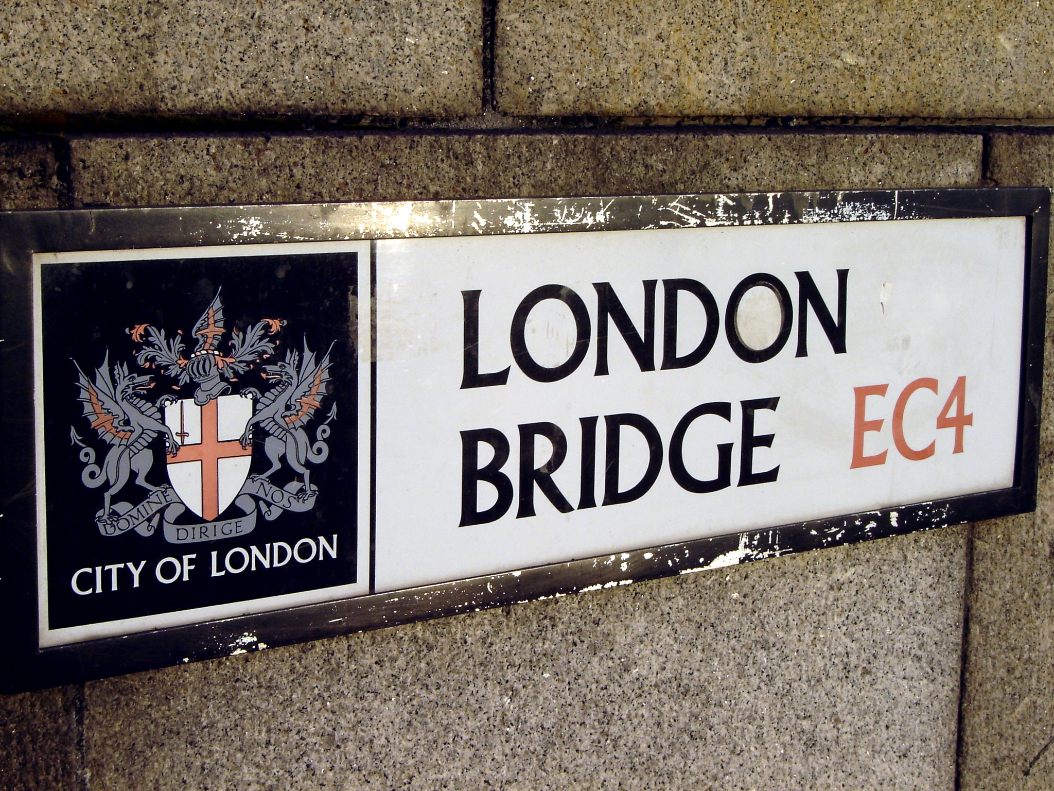 City of London signage